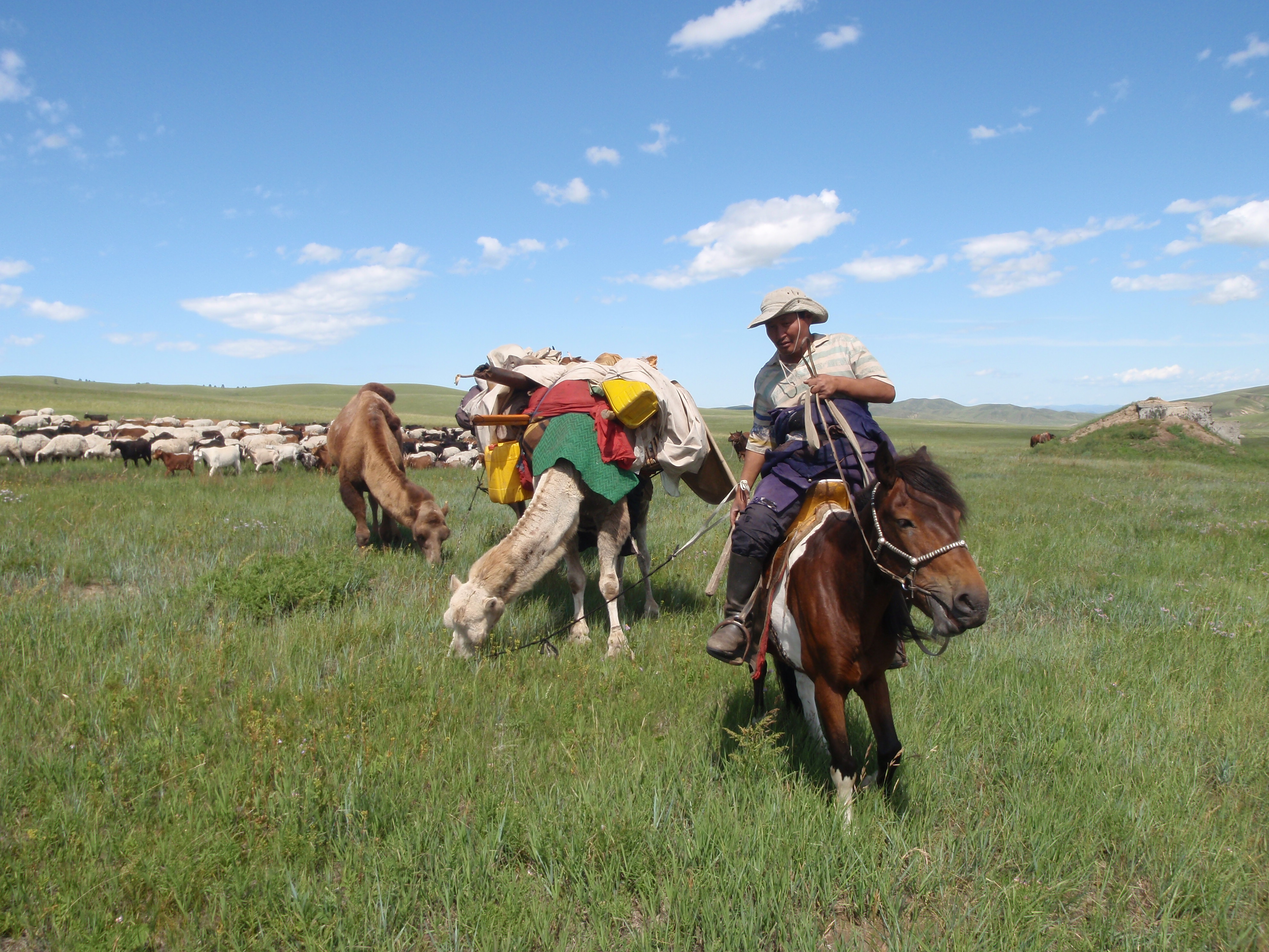 Mongolian nomade on hors with camels and goats